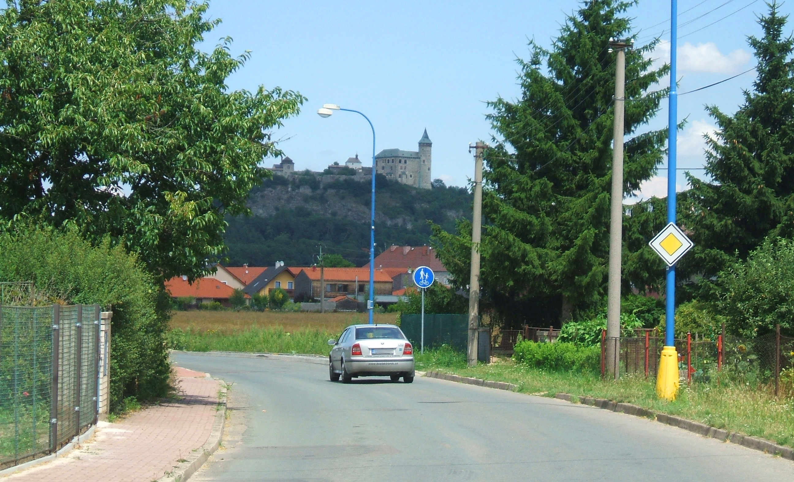 Brozany, part of Staré Hradiště, Pardubice District, Czech Republic. Česky: Brozany, část obce Staré Hradiště, okrese Pardubice